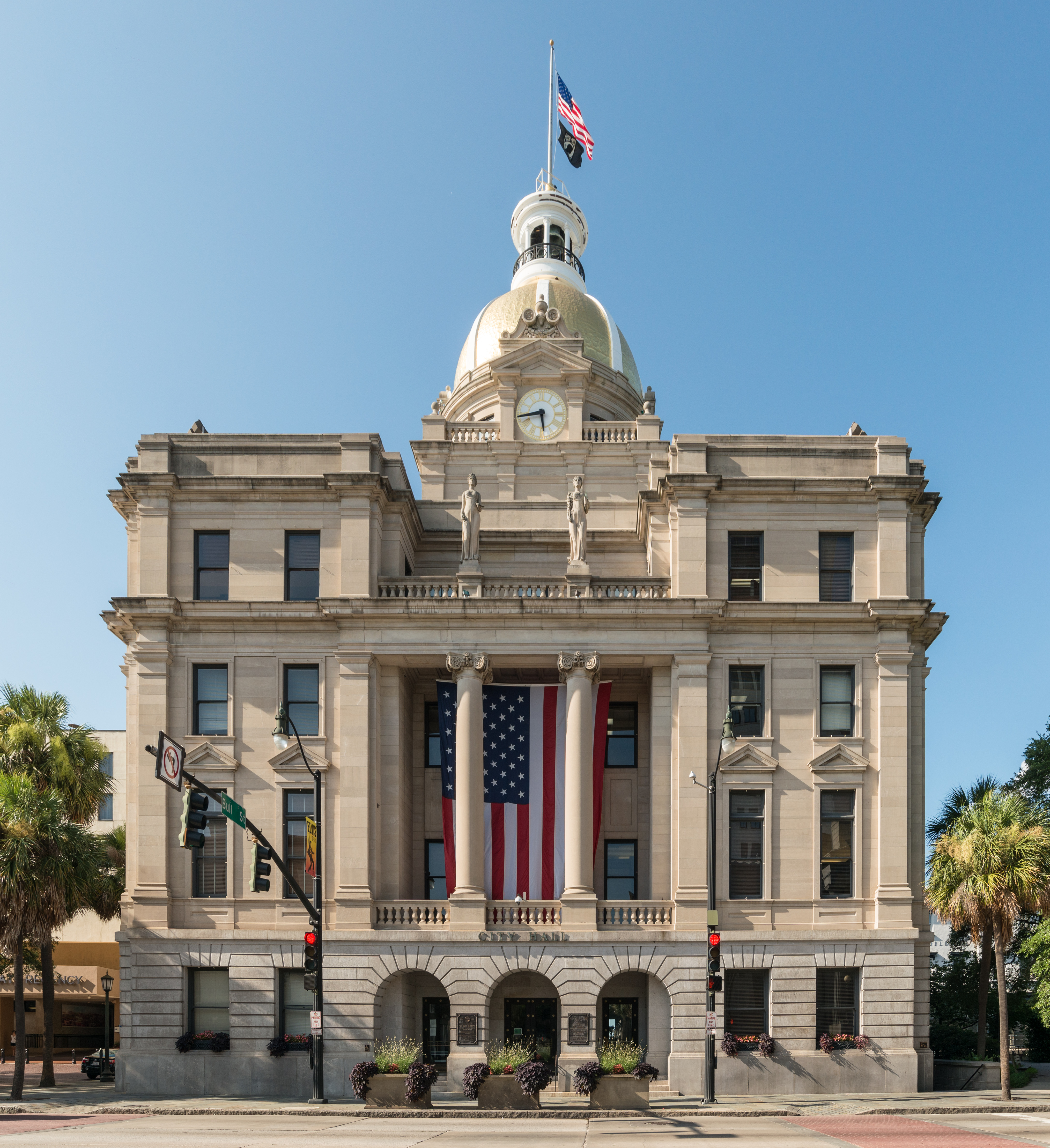 A south view of Savannah City Hall